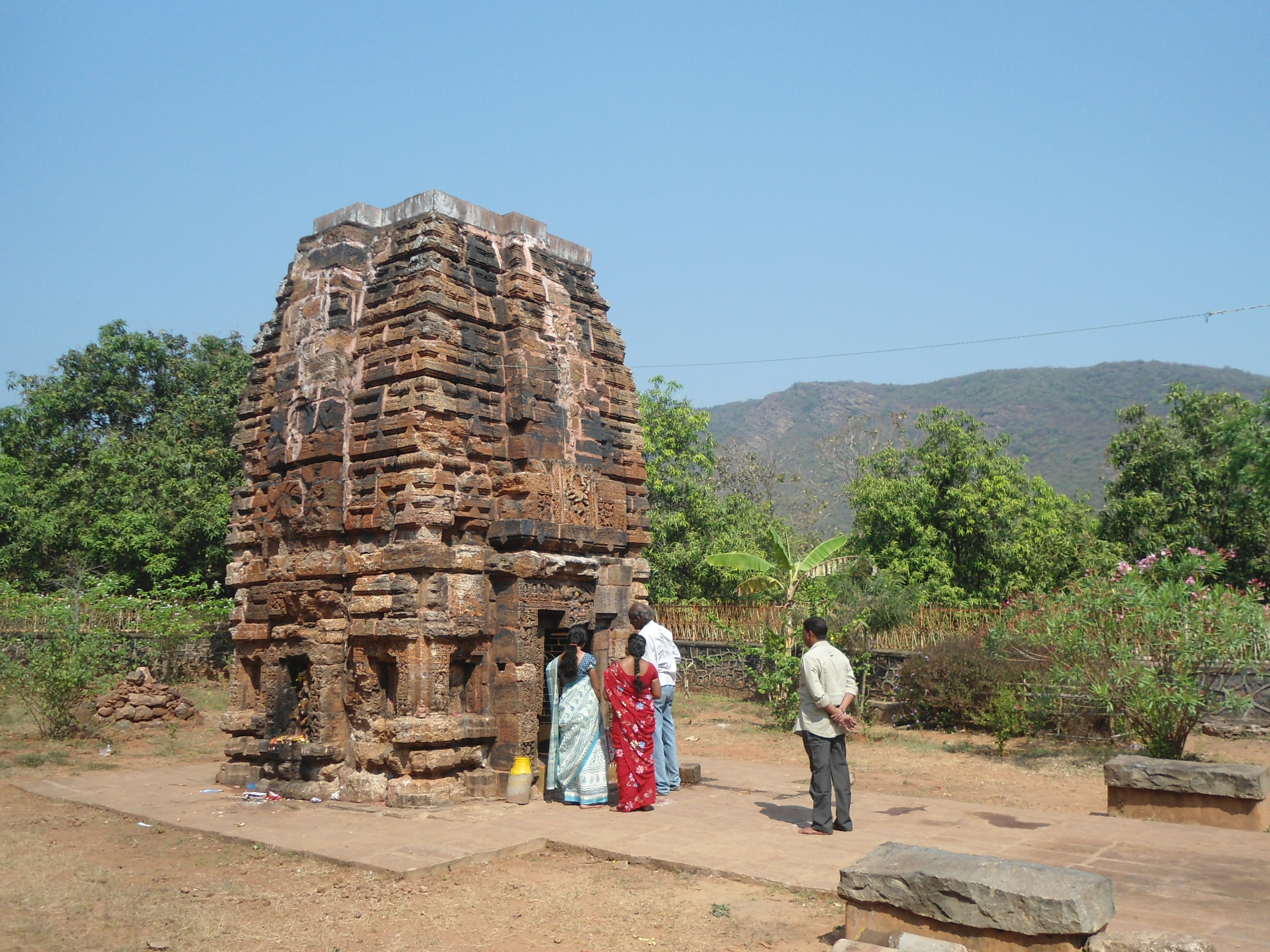 Dibbalingeswara Temple at Saripalli, Vizianagaram district